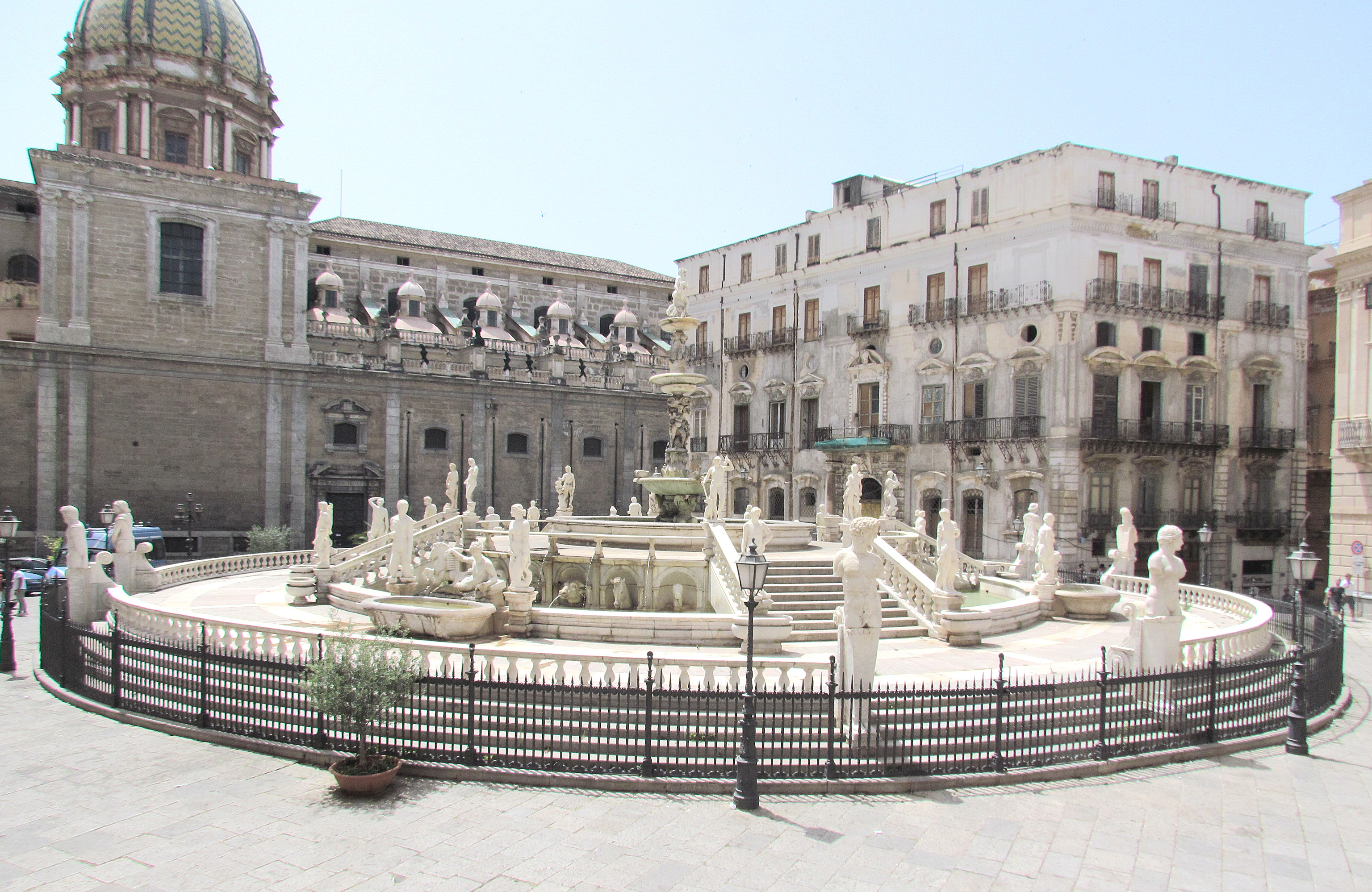 Fountain Pretoria - Palermo